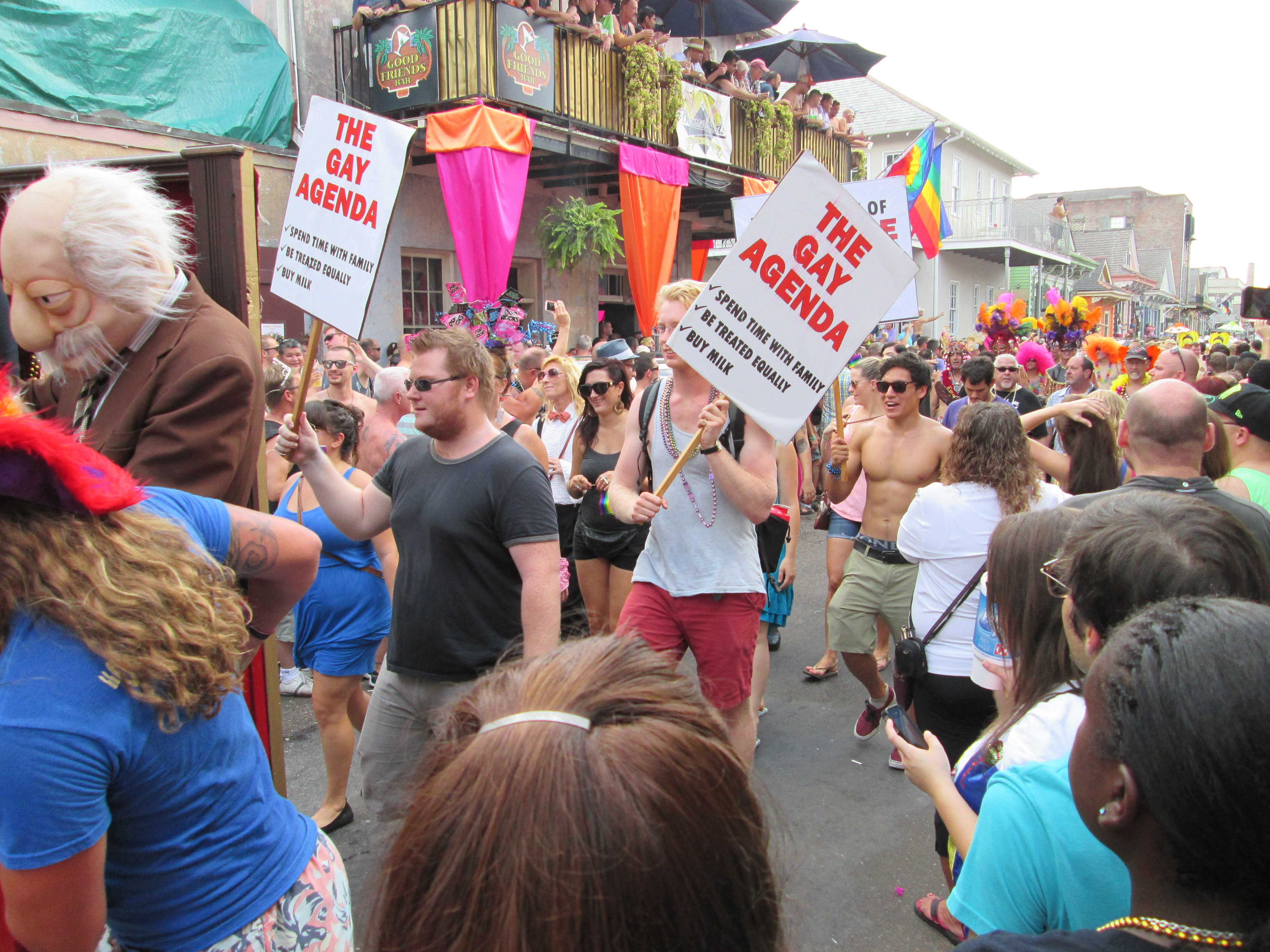 Southern Decadence parade day in the French Quarter of New Orleans